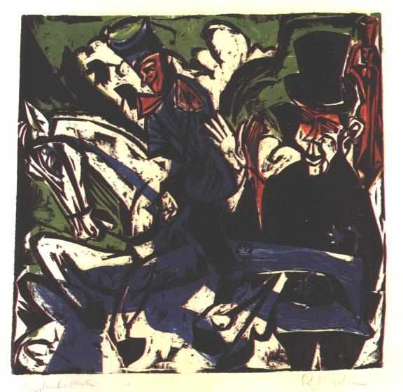 Schlemihls entcounter with small grey man